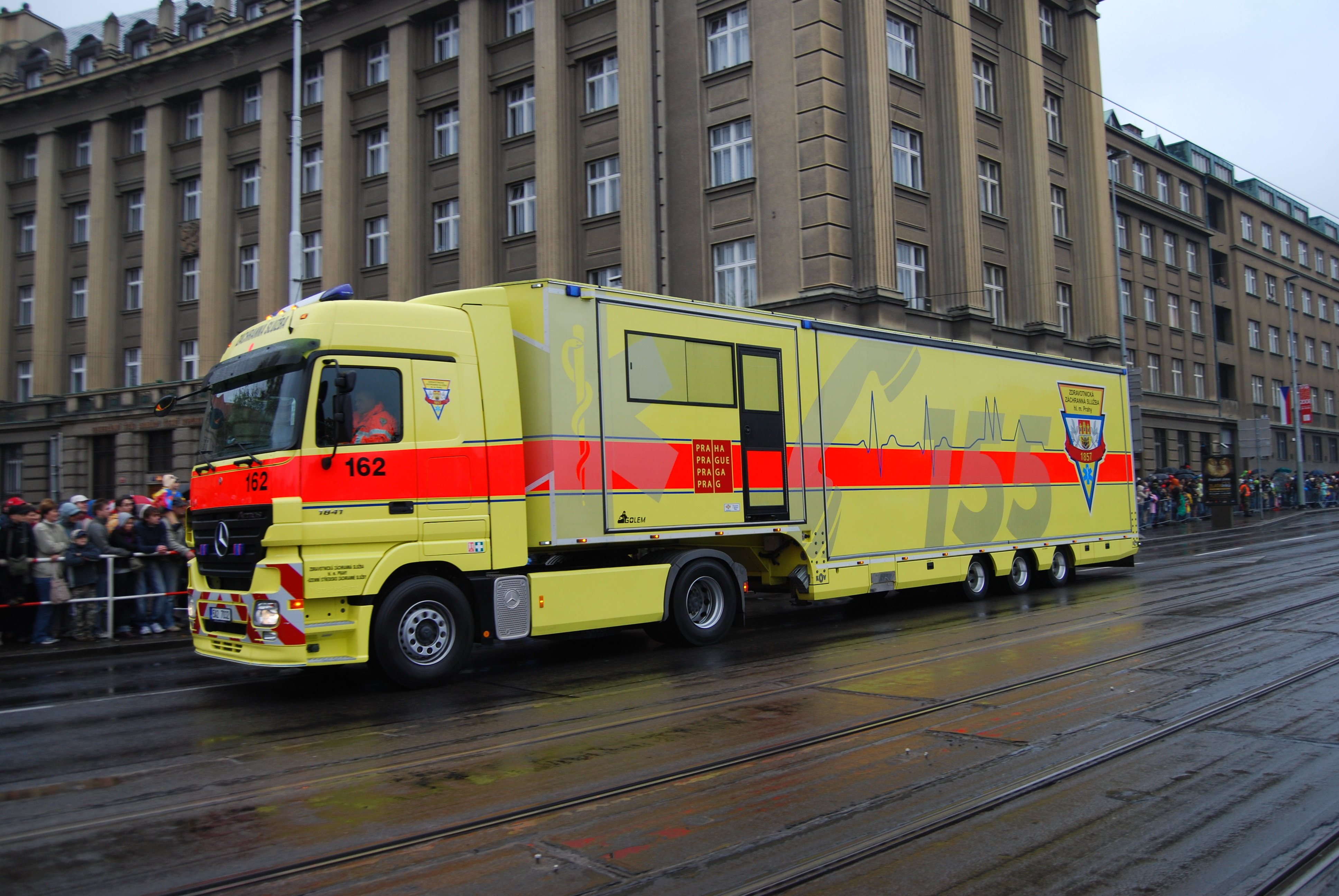 Military parade in Prague, Czech Republic as the 90th anniversary of independence of the Czechoslovakia. Golem truck